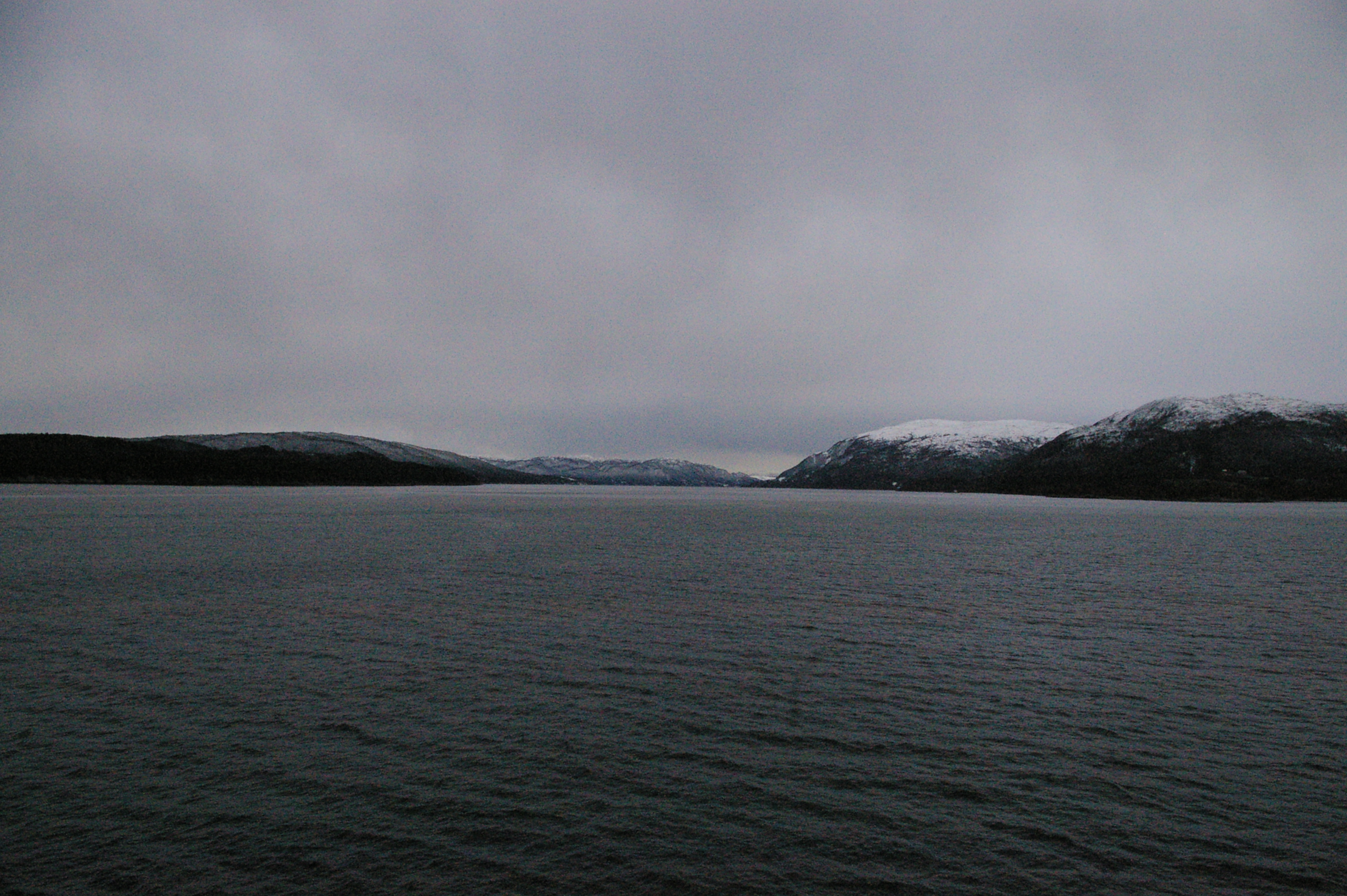 Langenuen in Sunnhordland in Norway. The islands Stord to the right and Tysnesøy to the left.